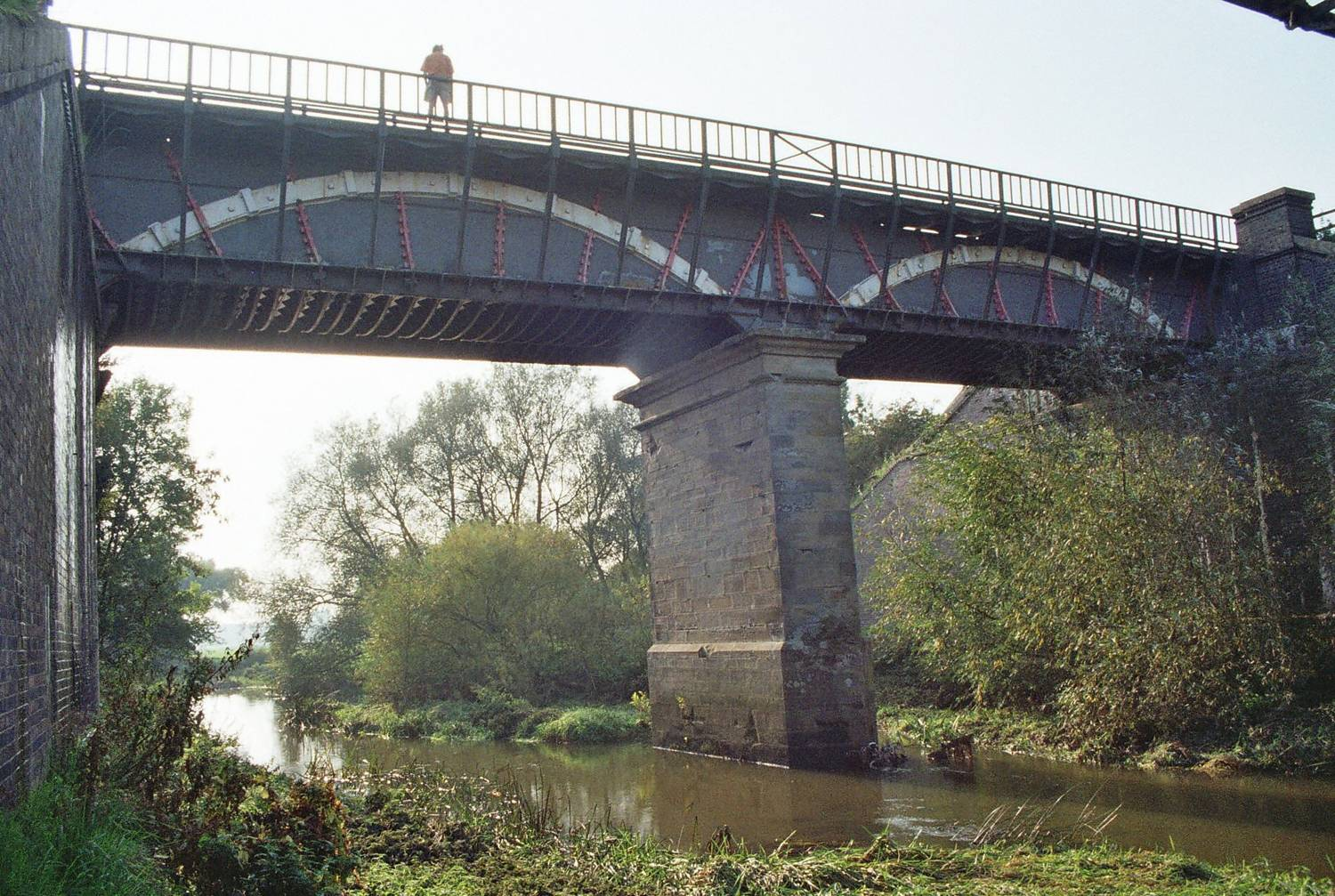 Cosgrove aqueduct, photographed 2006 by Dr Peter R Lewis